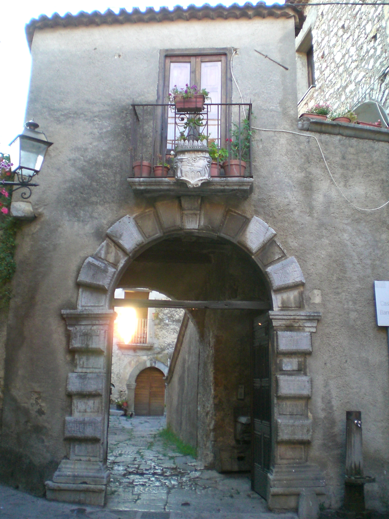 The castle of Morigerati